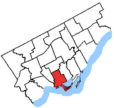 Map of the Trinity—Spadina electoral district. Based on Earl Andrew's :Image:Ct04.PNG and :Image:St04.PNG, created by SimonP.